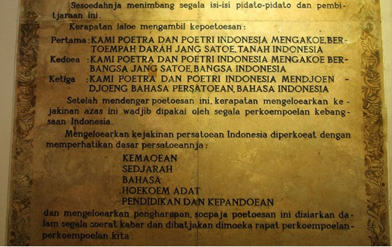 Butir-butir Sumpah Pemuda (The 3 Pledges) was the result of The Second Youth Congress held in Batavia (Jakarta) on October 1928. On the last pledge, there was an affirmation of Indonesian language as a national language of the Republic of Indonesia.